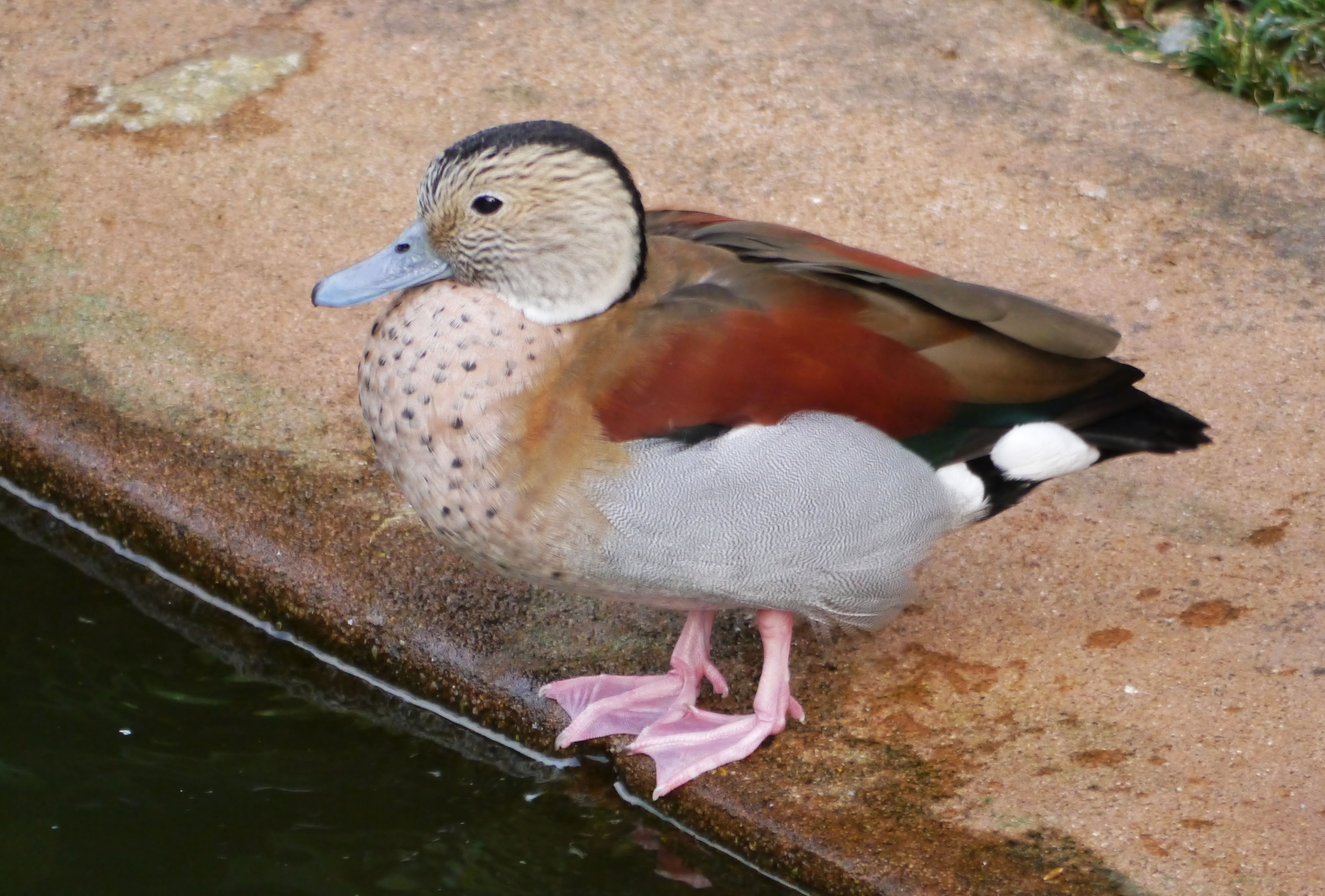 Ringed Teal (Callonetta leucophrys). Kowloon Park. Hong Kong.